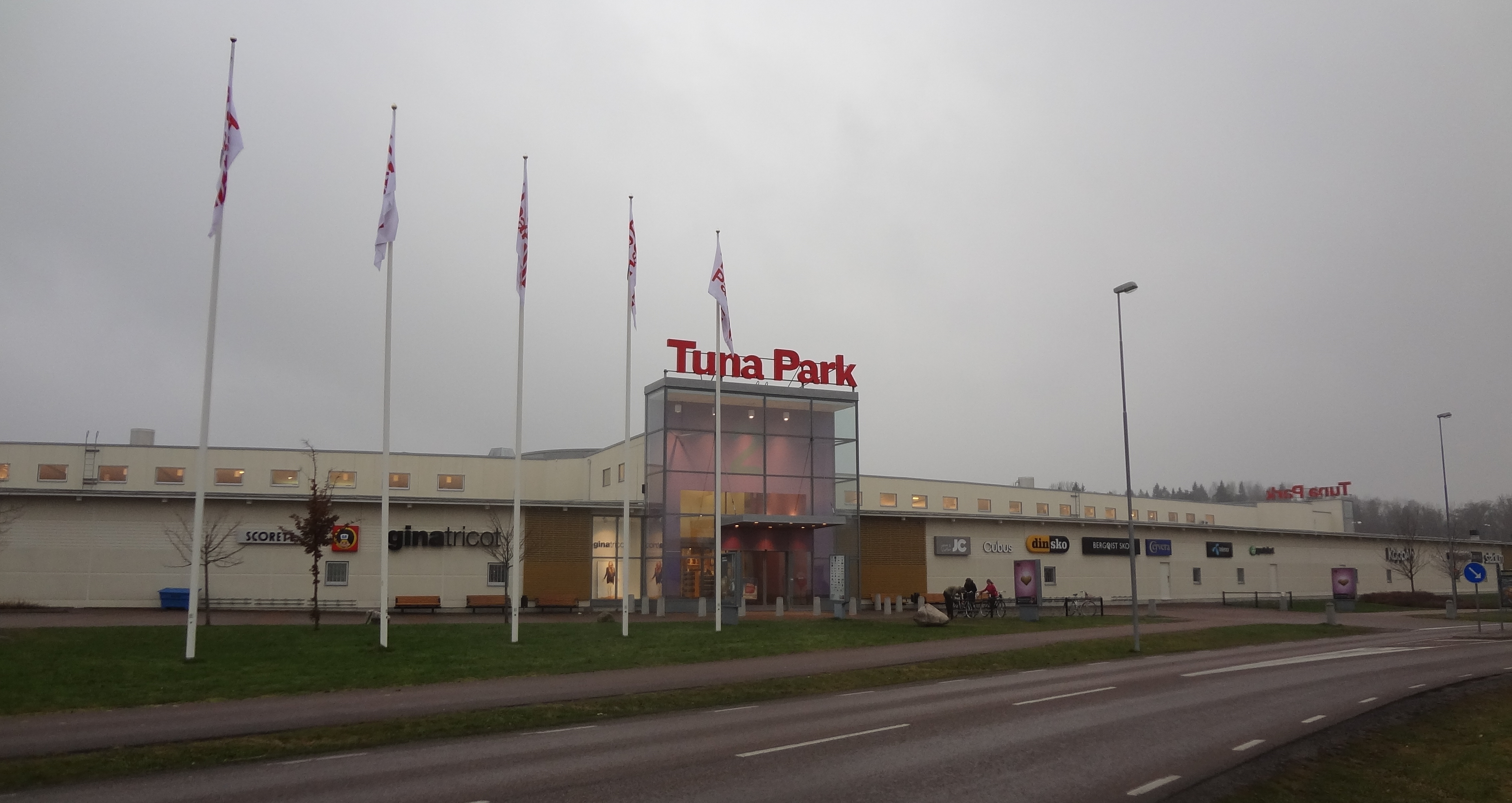 Shopping mall Tuna Park in Eskilstuna, Sweden. Photo november 2012.